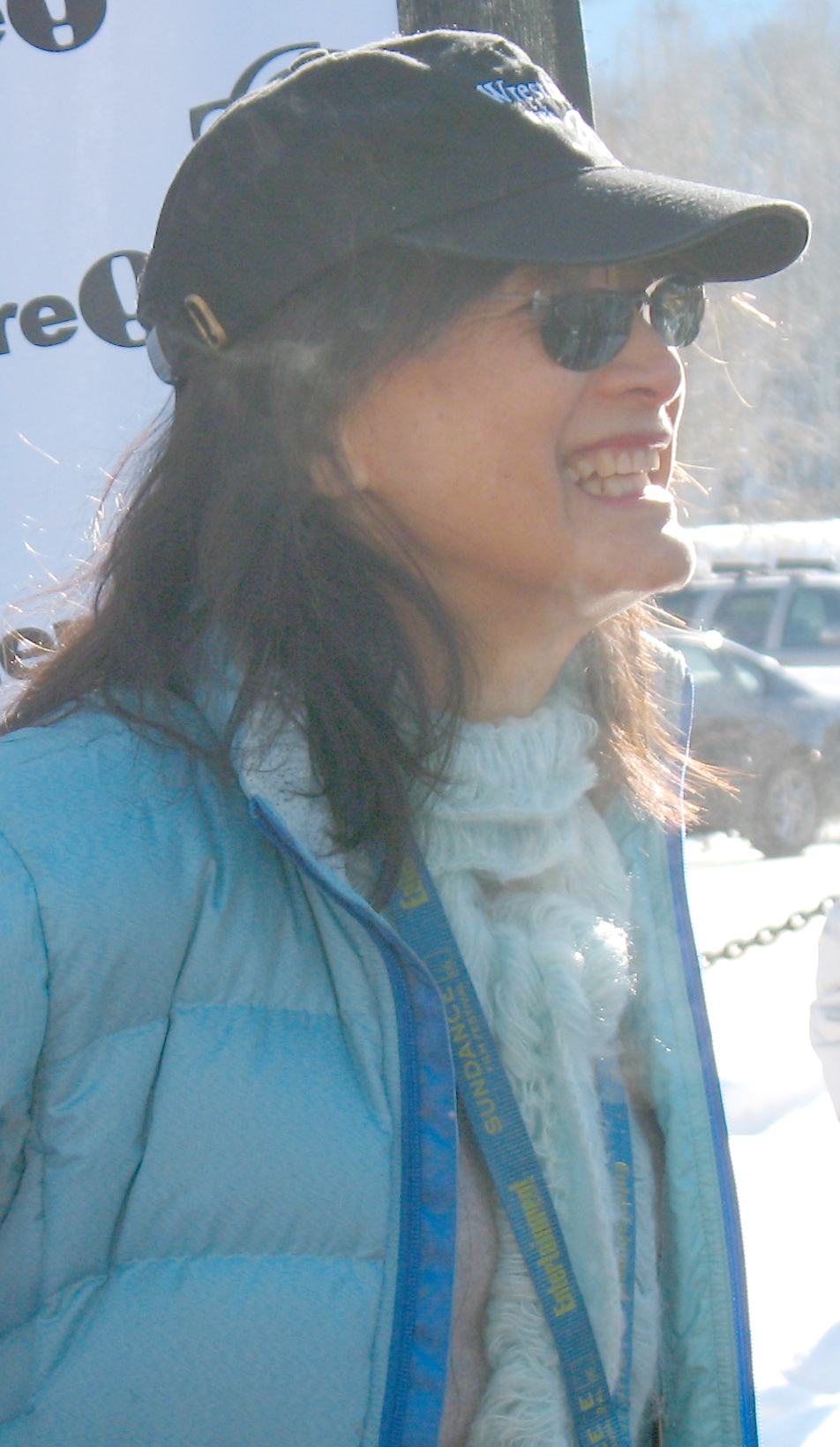 Photograph of Freida Lee Mock taken at the Sundance Film Festival.